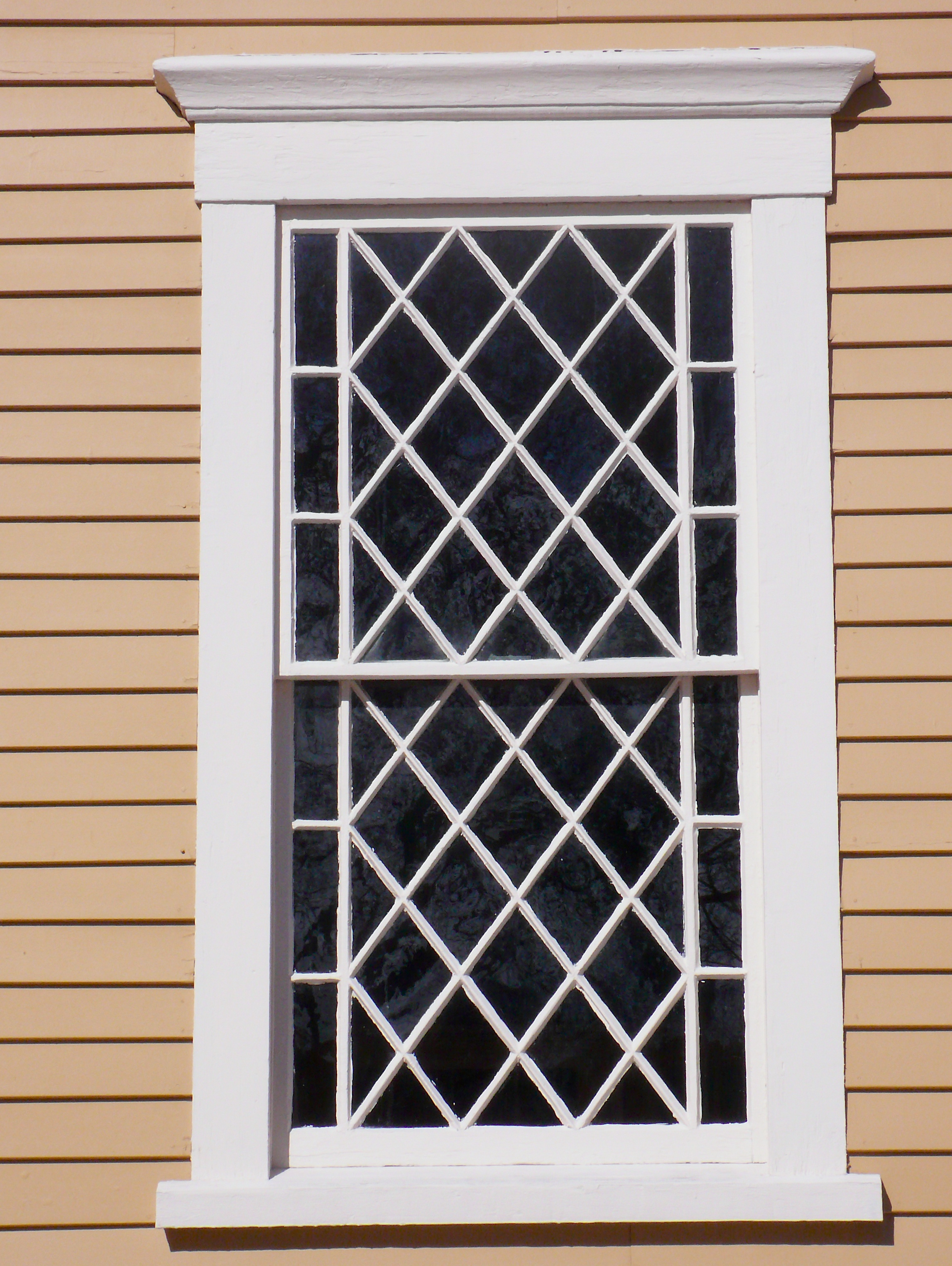 Window frame of Old Ship Church, Hingham, Massachusetts